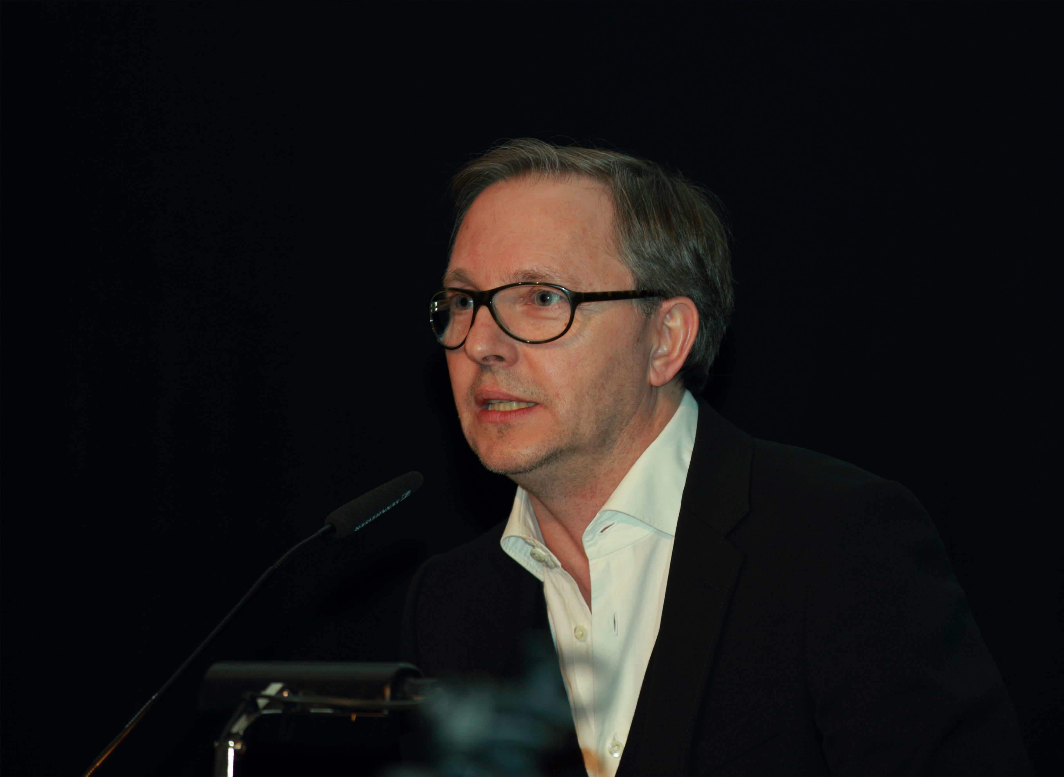 German comedian Olli Dittrich, reading at Lit.Cologne festival 2012